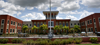 Photo i took of treasure coast on January 8th